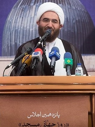 Mohammad Javad Hajaliakbari, Head of Center of mosques Handle, Friday Imam in Damavand city, Member of the Board of Directors of the Center for the Intellectual Development of Children and Young Adults, a member of the Fridays Imam's Policy Council and And Representative of the Supreme Leader Ayatollah Seyed Ali Khamenei in Union of Student Islamic Associations.